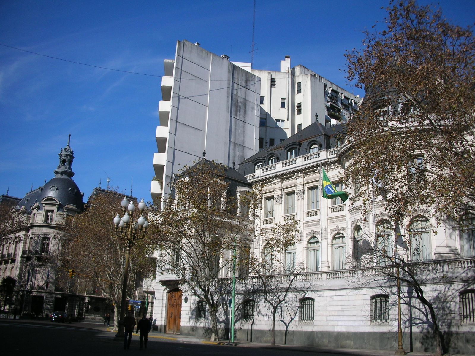 The Pereda Palace, the official Residence of the Ambassador of Brazil in Argentina.